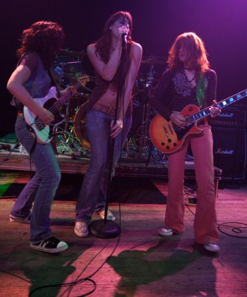 Lez Zeppelin at the vogue in indianapolis, in. Photo by kris arnold.